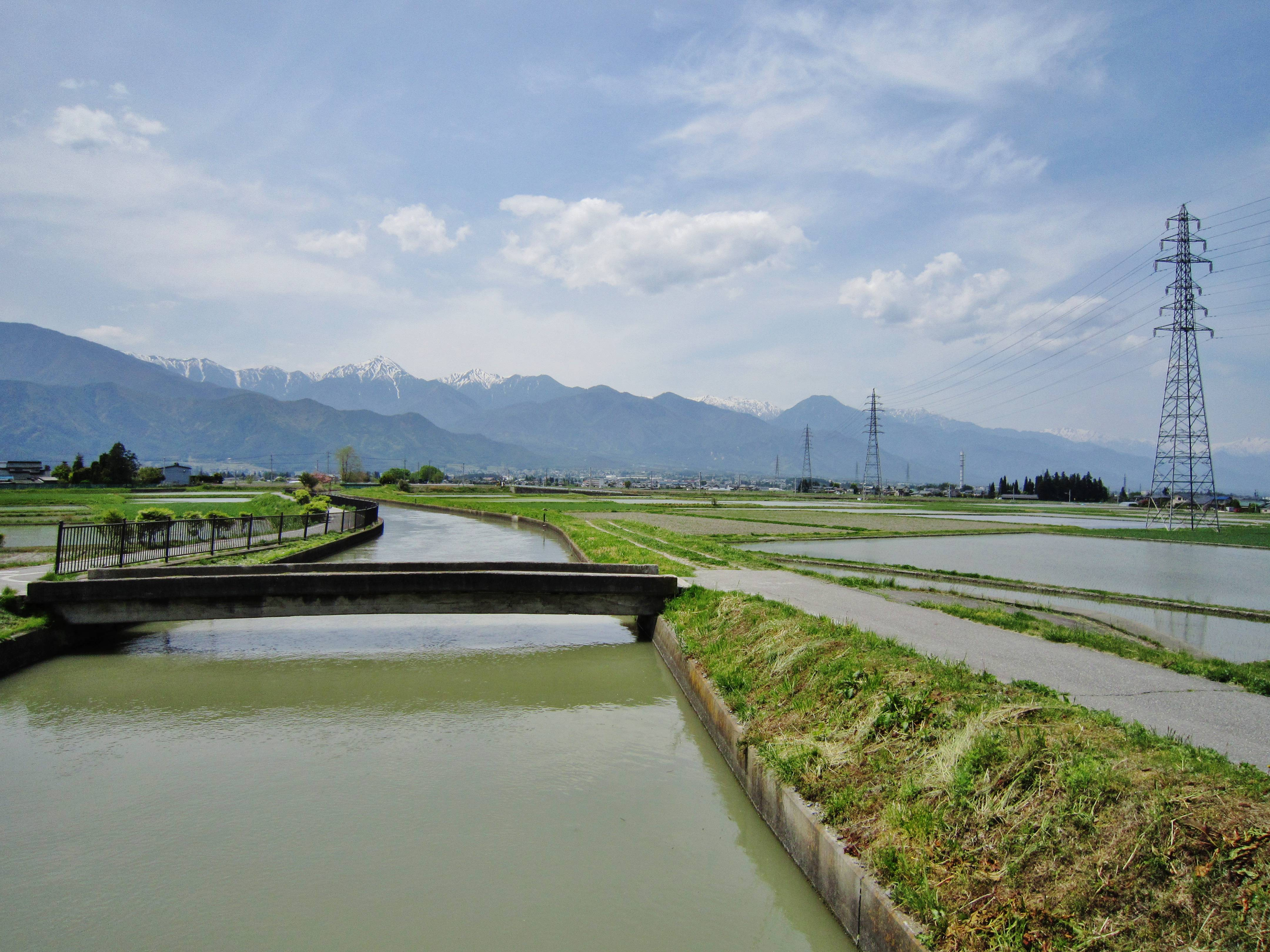 Jikka Segi.